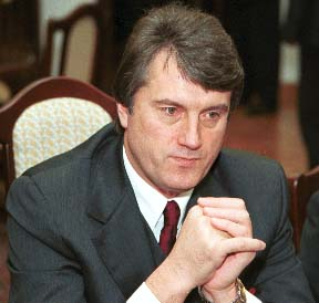 Third President of independent Ukraine Viktor Yushchenko (2005-) in the Polish parliament (then Prime Minister).